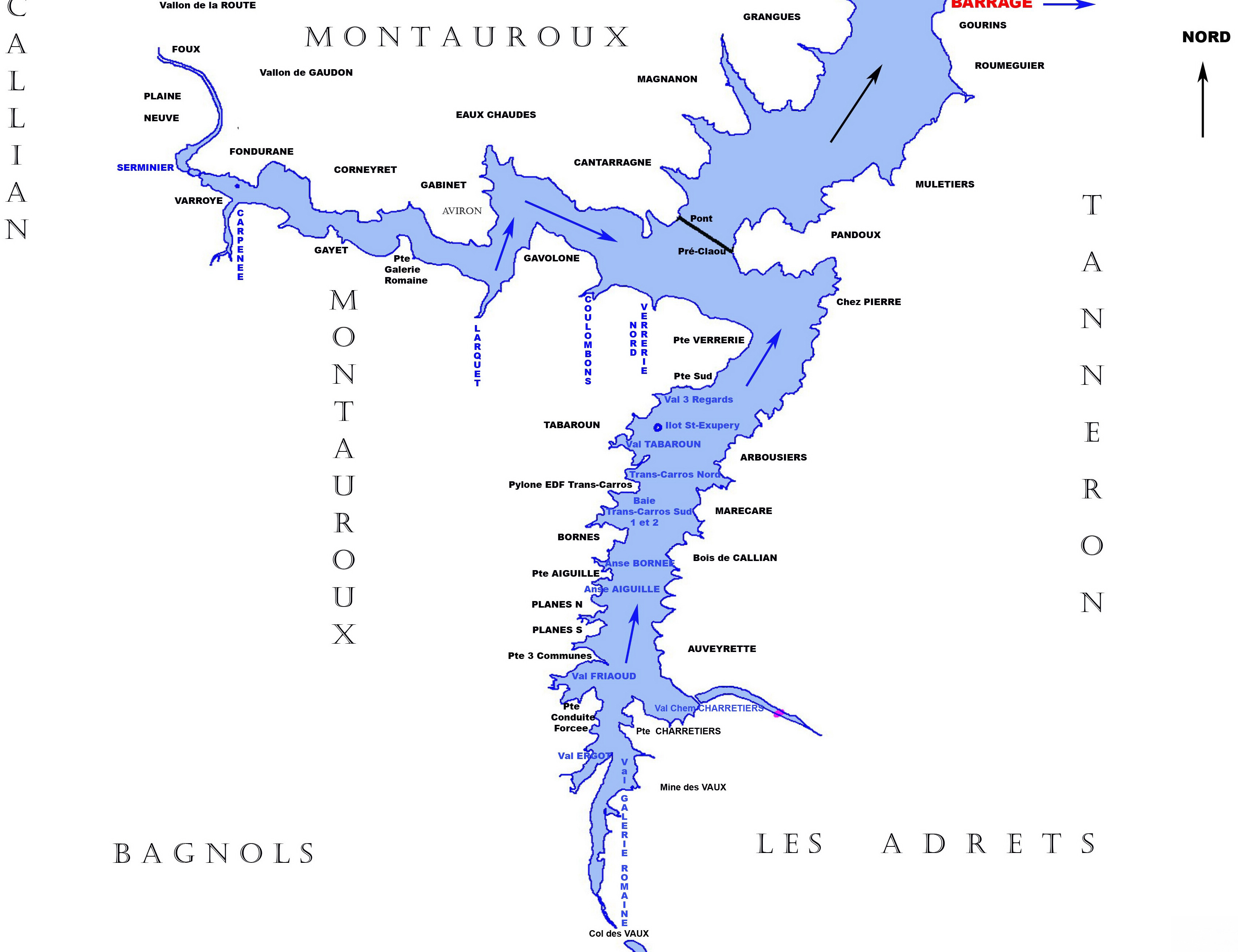 Saint-Cassien Lake, Var, Toponymy